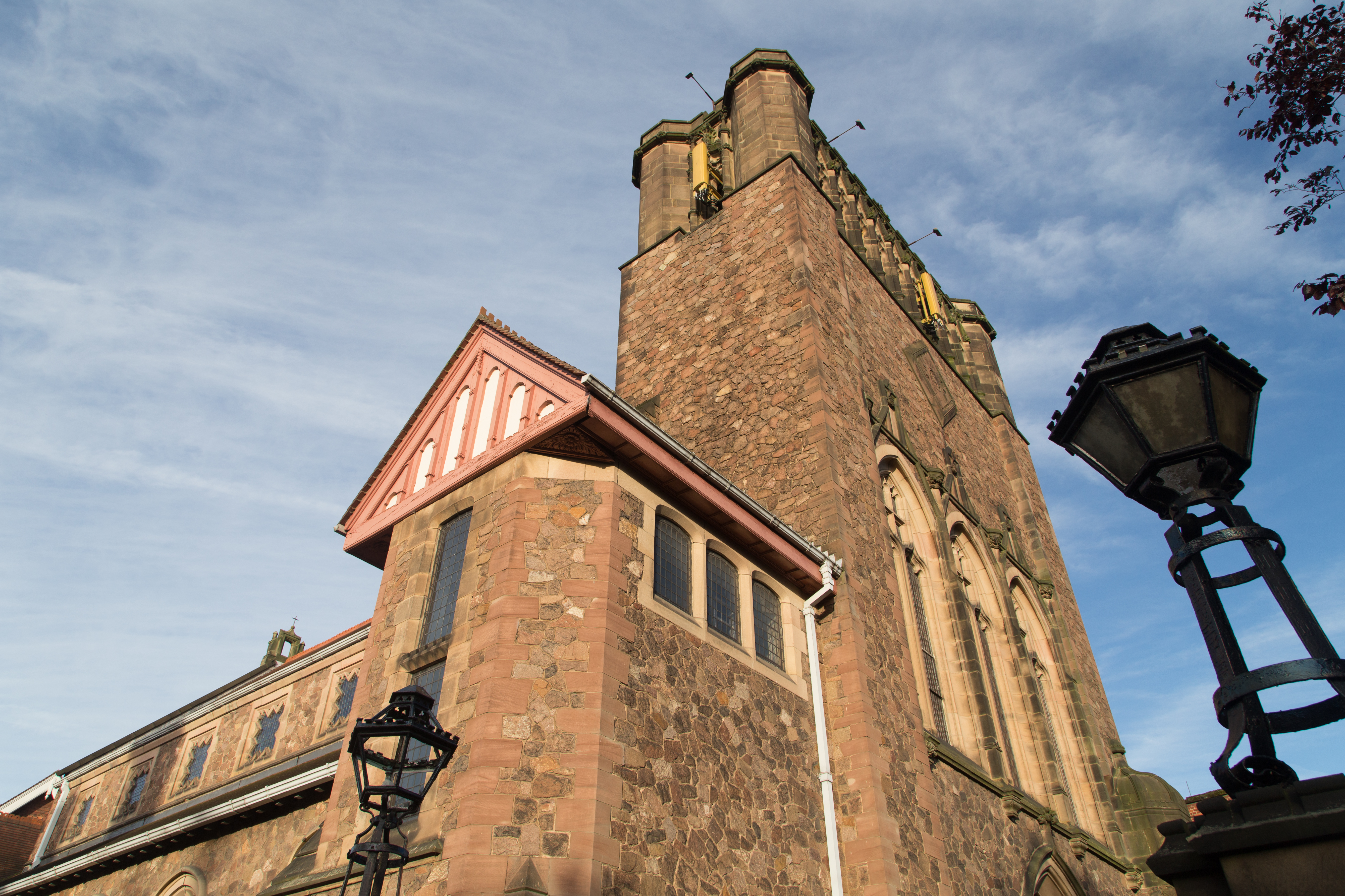 Clarendon Park Congregational Church Wikidata has entry Q26643390 with data related to this item.